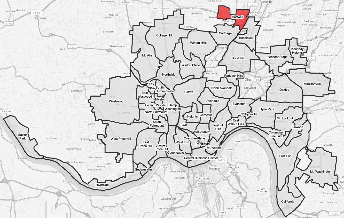 A map of the neighborhood of Hartwell within Cincinnati, Ohio. Neighborhood lines are based on information from This street map is derived from a free map.